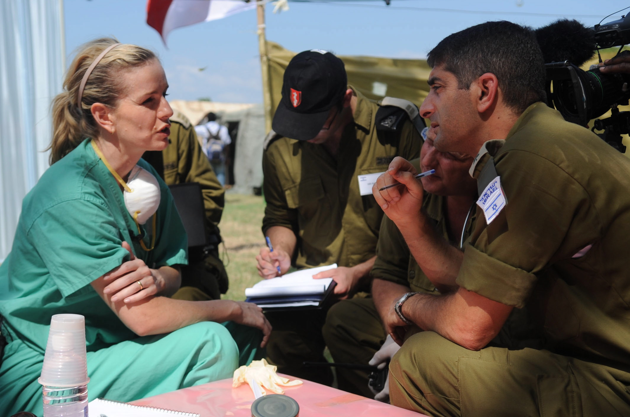 January 17, 2010. Dr. Jennifer Lee Ashton, an American doctor working at a UN Medical Facility is pictured during a meeting with Doctor Colonel Itzik Kryce, commander of the Israel Defense Forces field hospital in Haiti. The two discuss the cooperation and coordination between the different aid delegations. After the devastating earthquake which struck Haiti in January 2010, Israel sent an aid delegation of over 250 personnel to help with search and rescue efforts and establish a field hospital in Port-au-Prince.